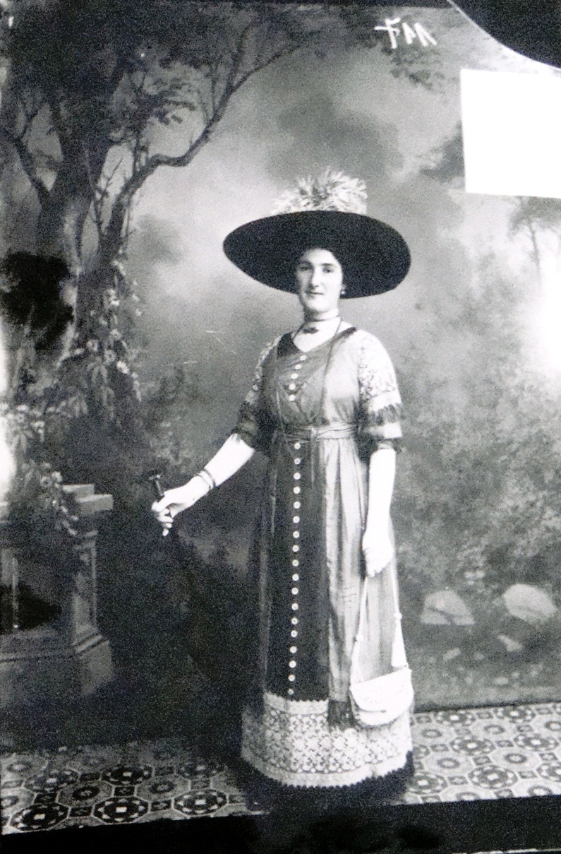 studio in Bitola, 1904 This media file is produced by Wikipedian in Residence in Category:Wikipedian in Residence at DARM in 2016.